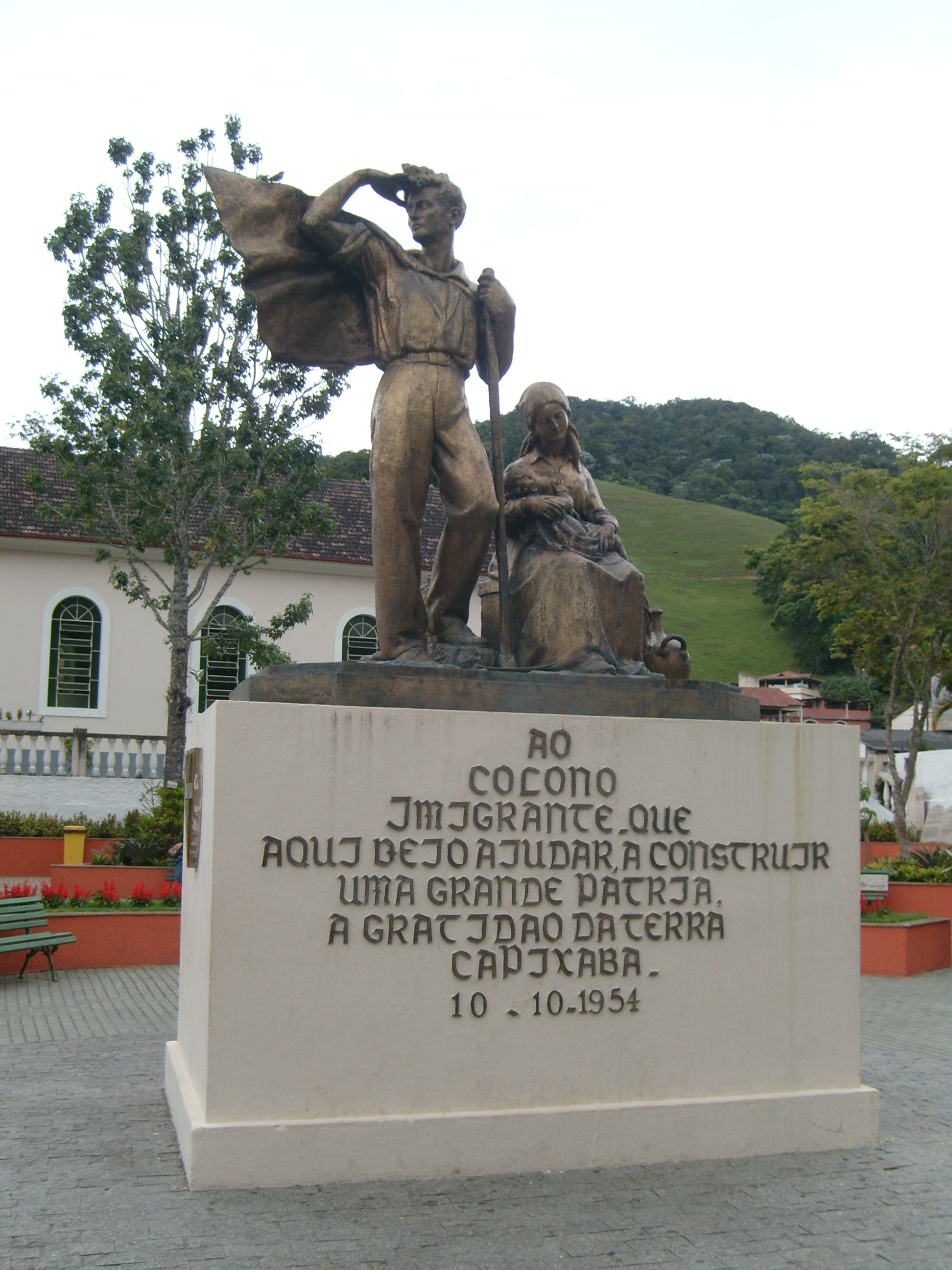 Domingos Martins's statue.